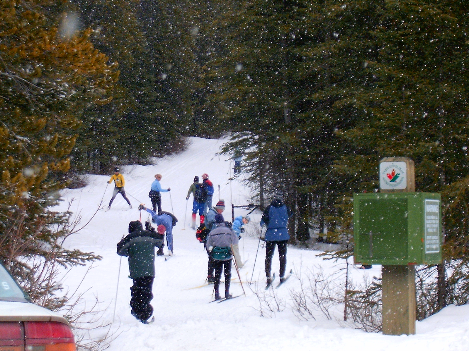 Cross-country skiing in Kananaskis, Alberta (Canada)